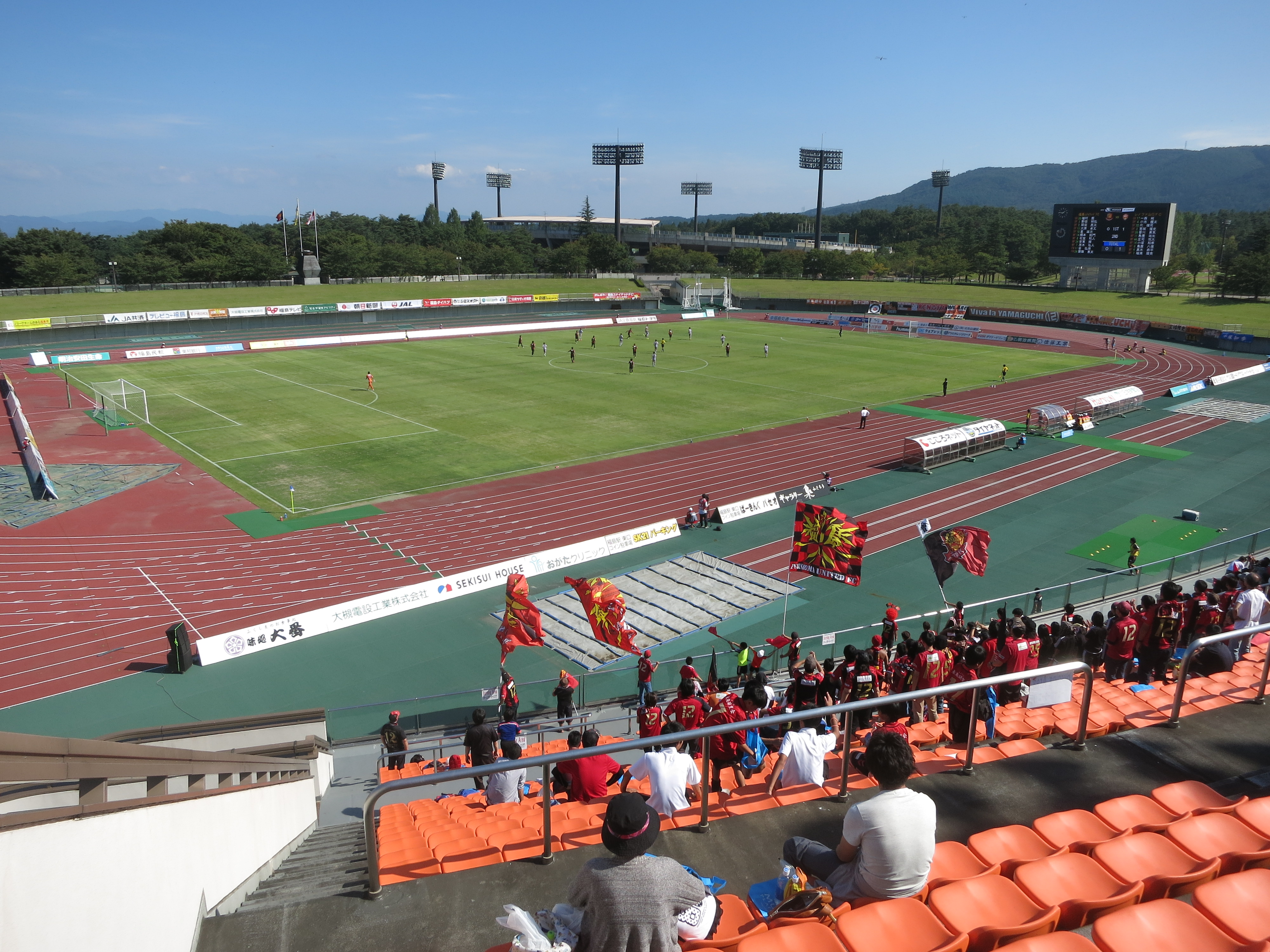 Fukushima Prefectural Azuma Athletic Stadium (Toho Minna no Stadium) in Fukushima City